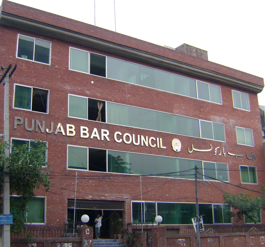 Image Magnified by Rana Sher Zaman Akram